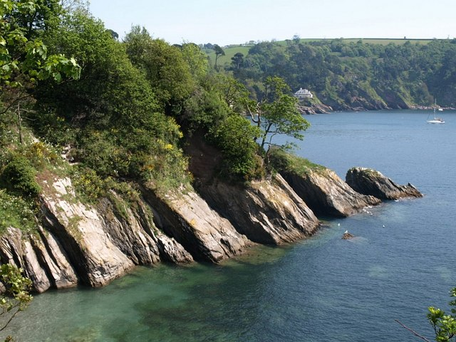 Sugary Cove. Another view of the rocks at 805847, from the point where Dartmouth Footpath 9 reaches the foot of a steep descent and turns north. Warren House is across the Dart.